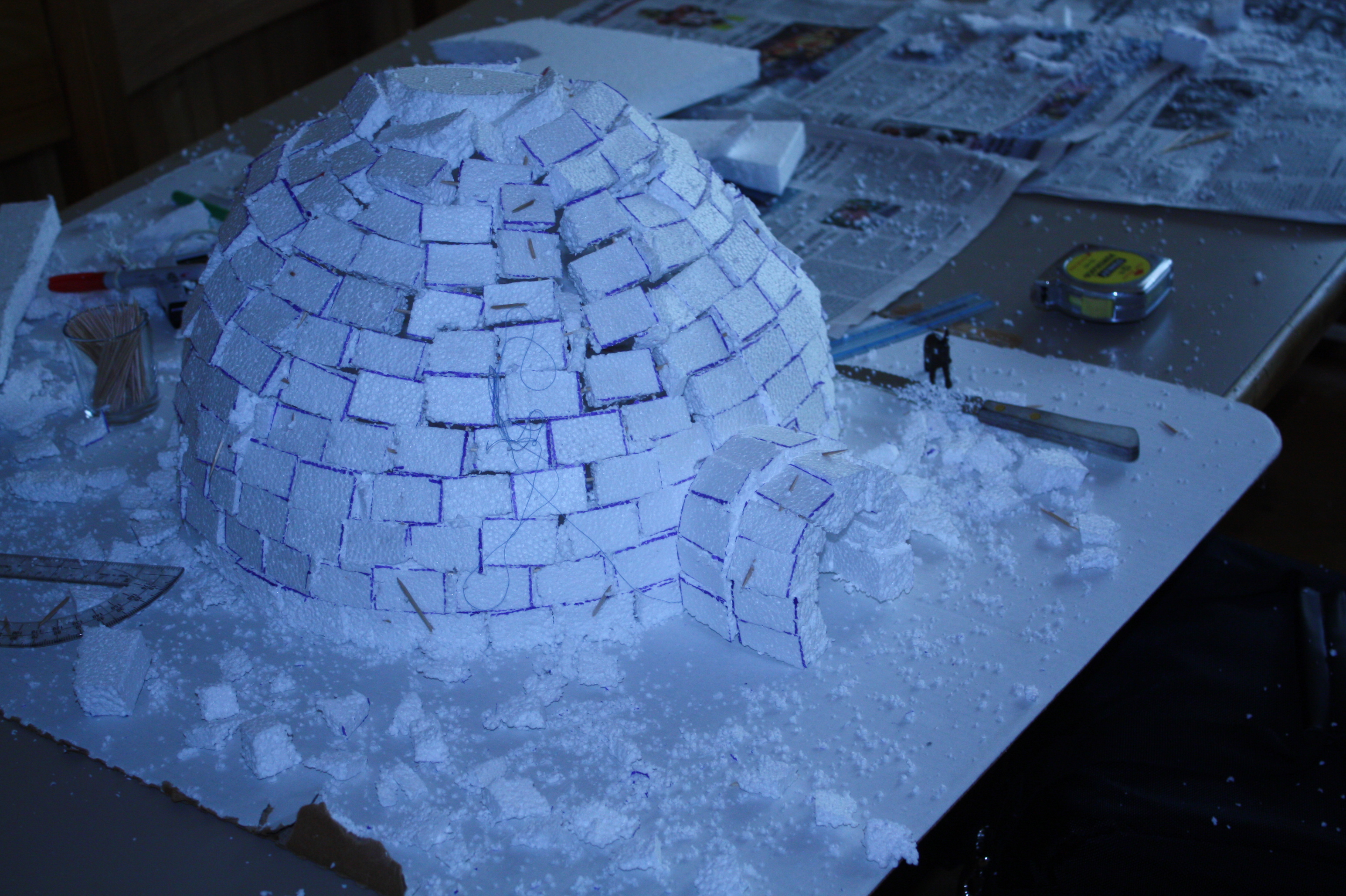 Styrofoam Igloo Model First Attempt